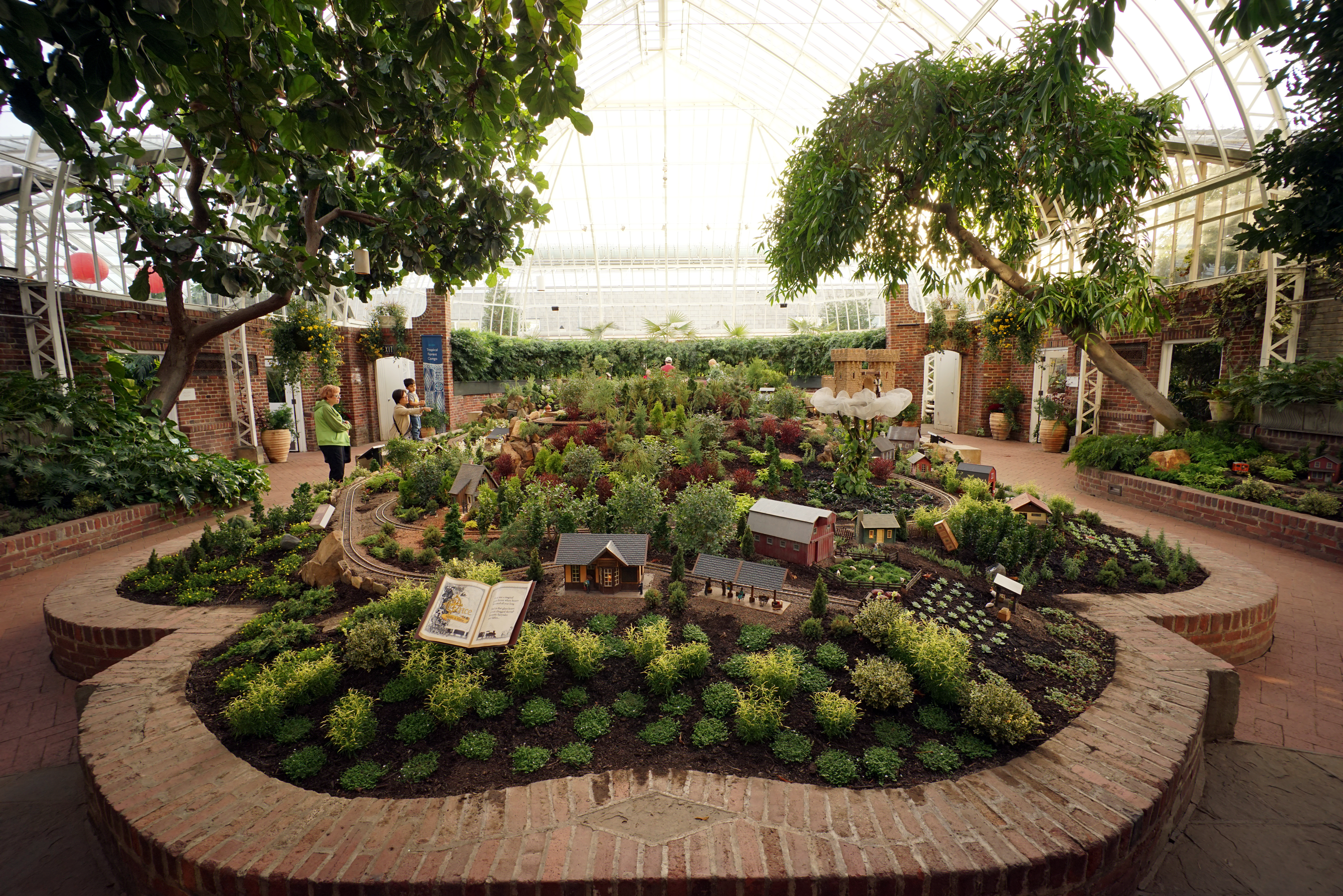 The miniature railway display at the Phipps Conservatory, open only for a month during autumn. The Phipps Conservatory and Botanical Gardens is a complex of buildings and grounds set in Schenley Park, Pittsburgh, Pennsylvania. Founded in 1893, the gardens serve to educate and entertain the people of Pittsburgh with formal gardens.